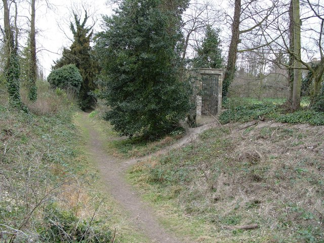 Footpath in the iron age fort ditch, Wandlebury Ring The 'Ring' at Wandlebury is an iron age fort, with a ditch and circular earthwork. You can walk all the way around the ditch.